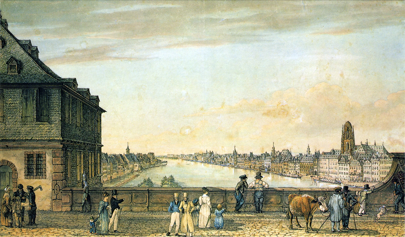 Prospect of Frankfurt, as seen from the new bridge mill, water- and opaque colour